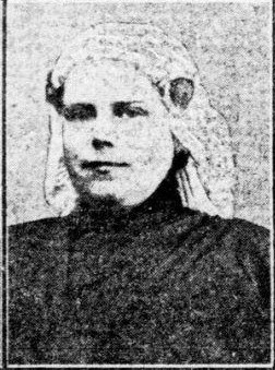 Mayor of Genemuiden